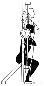 Smith machine diagram